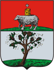 Osa (Perm krai), coat of arms(1783)